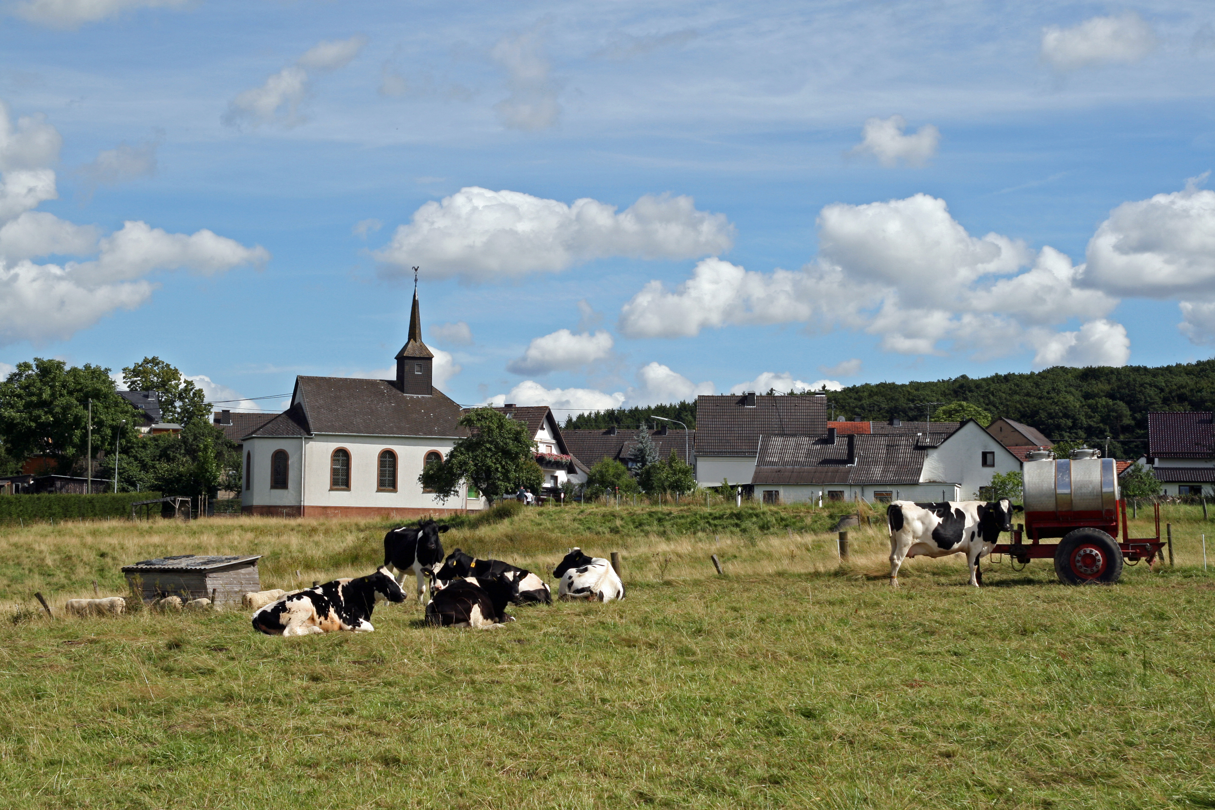 Dankerath, Eifel-Region, Germany